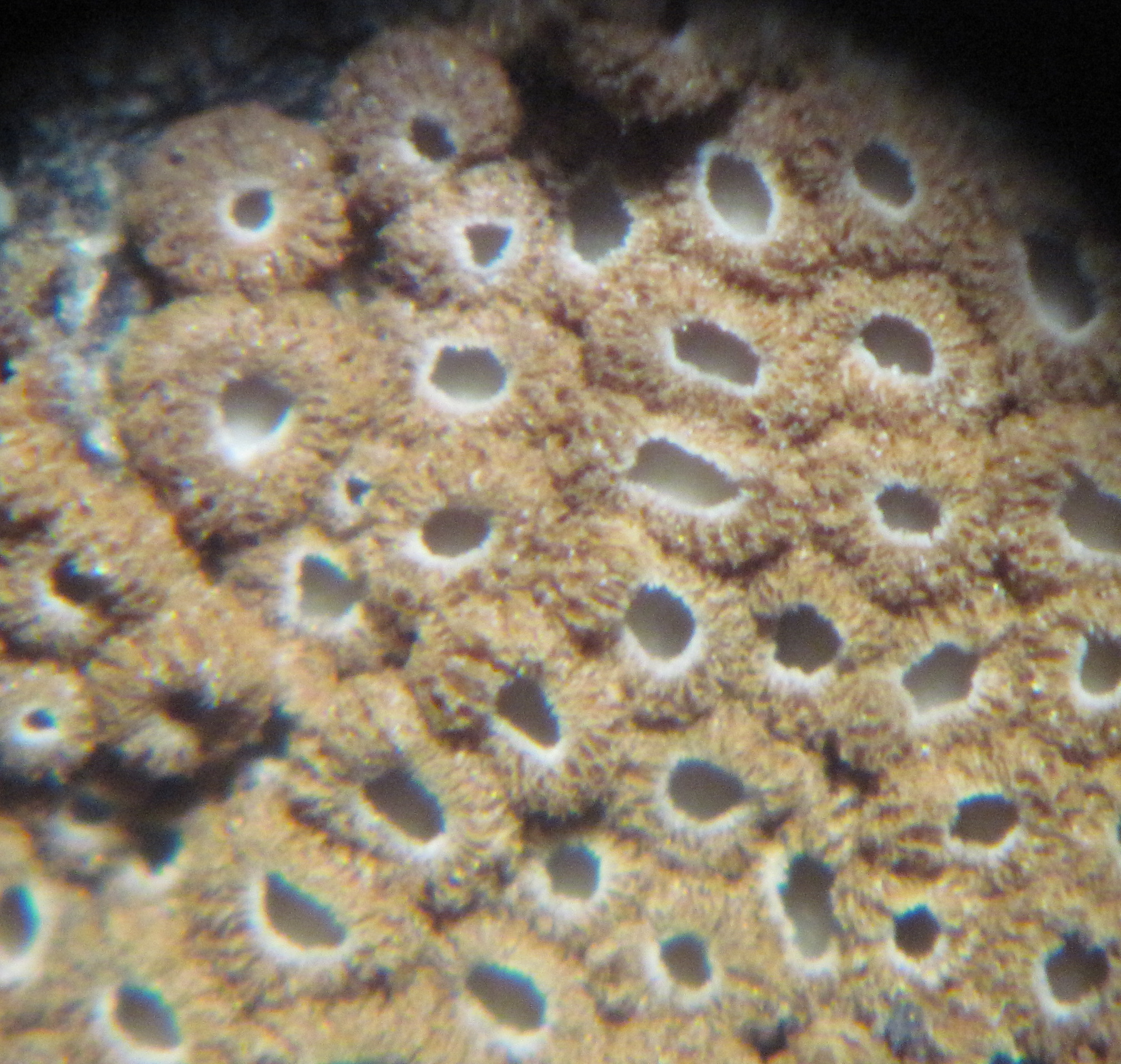 The ascomycete fungus Merismodes fasciculata. Specimen found on a fallen hardwood branch in “Orchard Beach” Bronx NY. Photo taken through through 10X field loop.